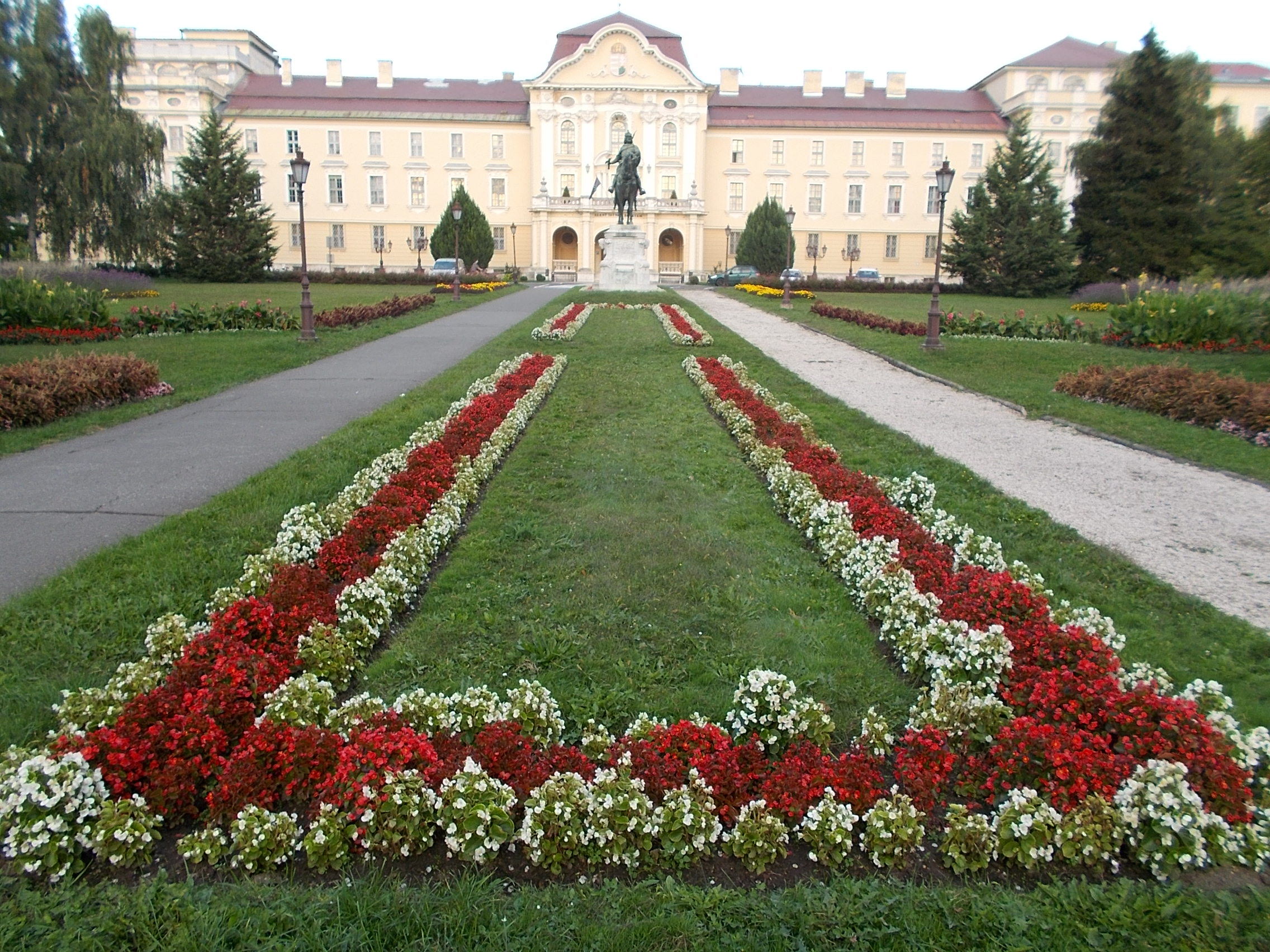 Statue of Coloman of Galicia (Prince Kálmán). Equestrian bronz equestrian statue in 1931, work of József Rona, made Neo-Baroque style. Located: in front of the monastery's entrance, stands in the center of the park between two walking trails. - Main Building of University of Gödöllő. (Szent István University main building). Former Premontrean high school, college and monastery. Built based on plans of Robert K. Kertész and GyulaSvab, 1923-29, Neo-Baroque. - Páter Károly Street, Gödöllő, Pest County, Hungary.